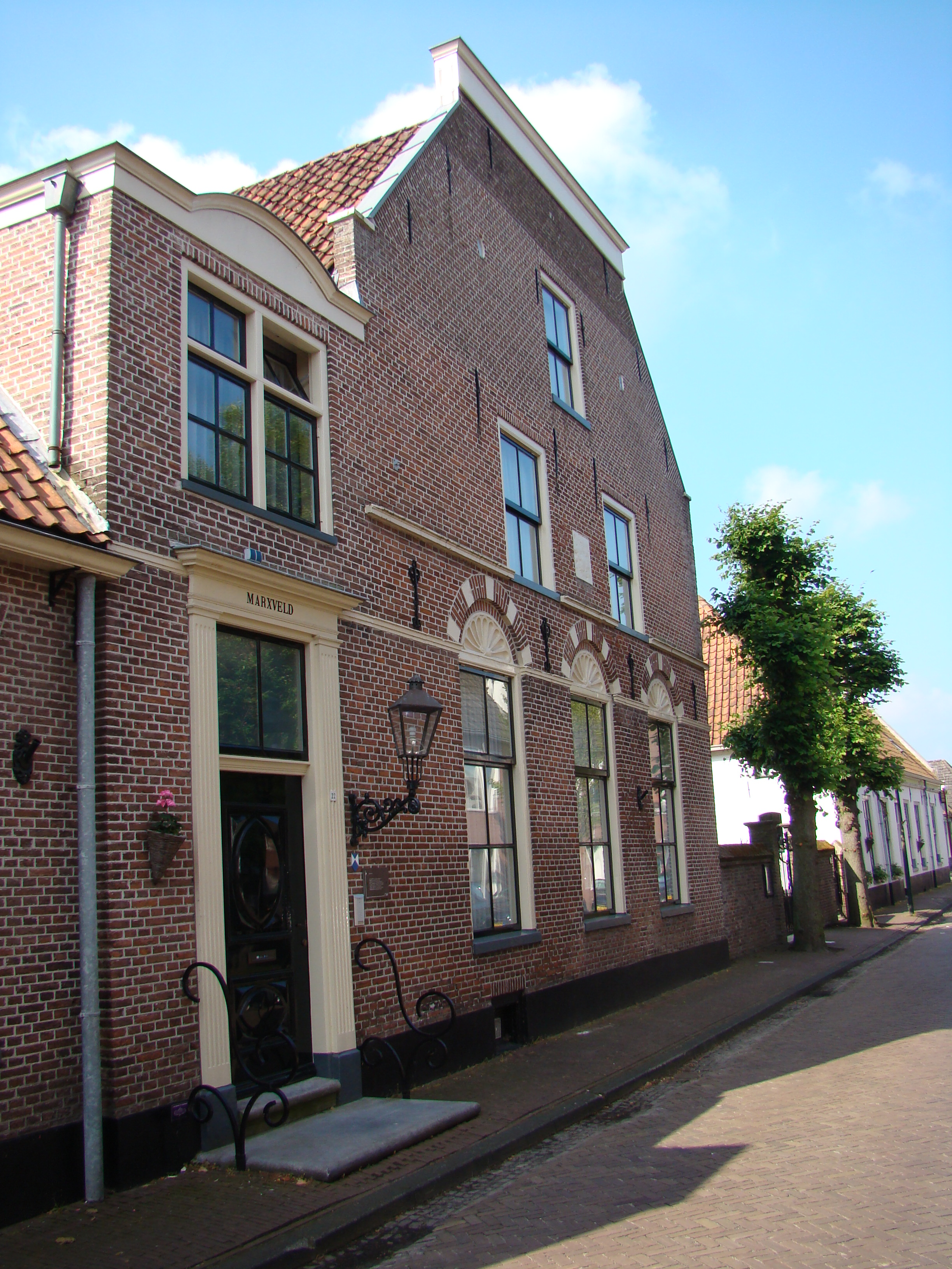 Impressions of Vollenhove